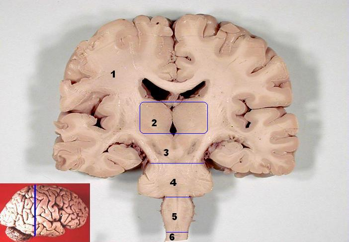 Human brain frontal (coronal) section The divisions of the brain are seen here in a Frontal (Coronal) Slice of the brain. Cerebrum Thalamus Mesencephalon - Midbrain Pons Medulla oblongata Medulla spinalis - Spinal cord